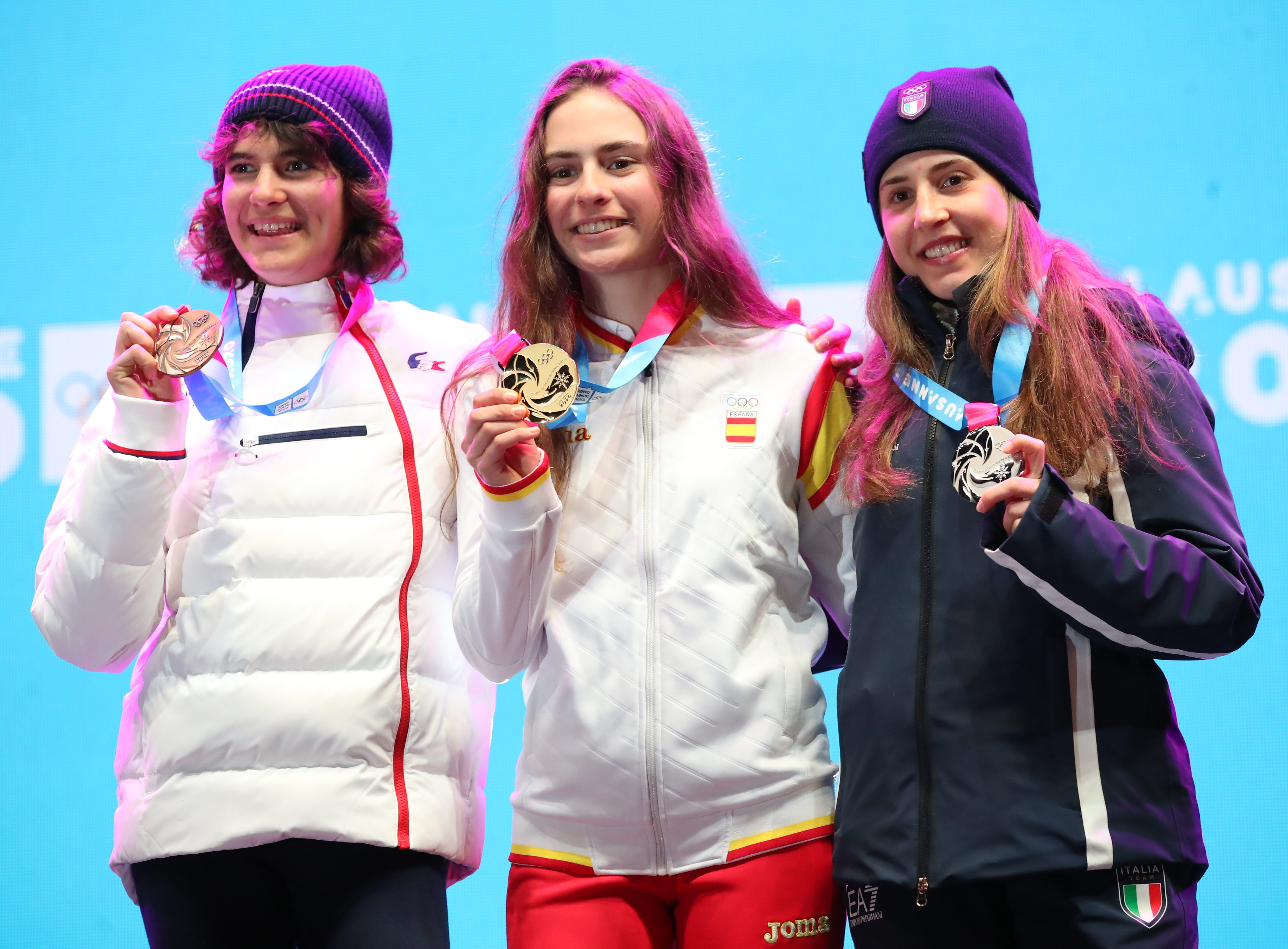 Medal ceremony of Ski Mountaineering – Women's Sprint at the 2020 Winter Youth Olympics in Lausanne on 13 January 2020.